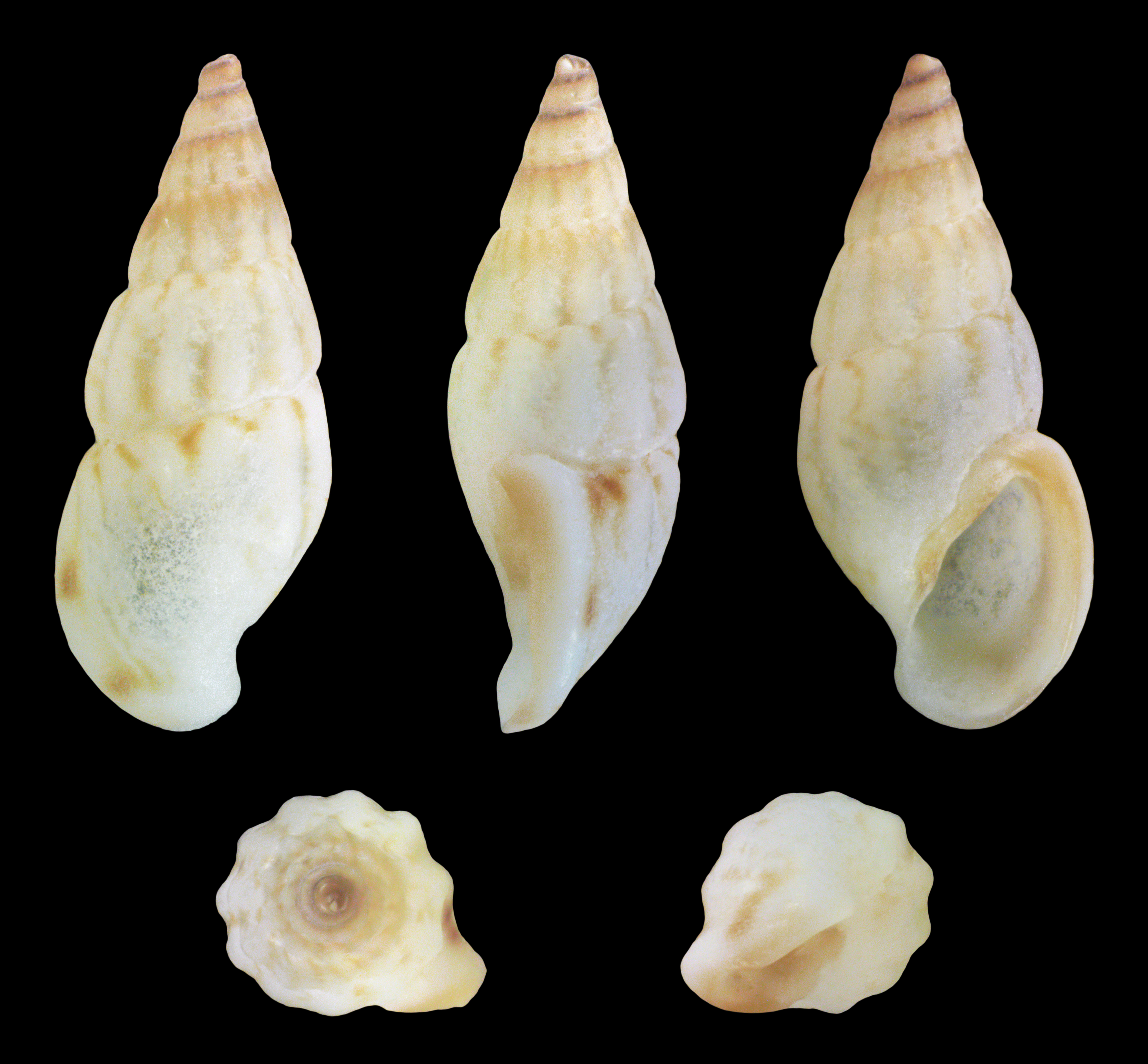 Rissoa membranacea var. labiosa (Montagu, 1803); Length 0.61 cm; Originating from Olympiada, Chalkidiki, Greece; Shell of own collection, therefore not geocoded.